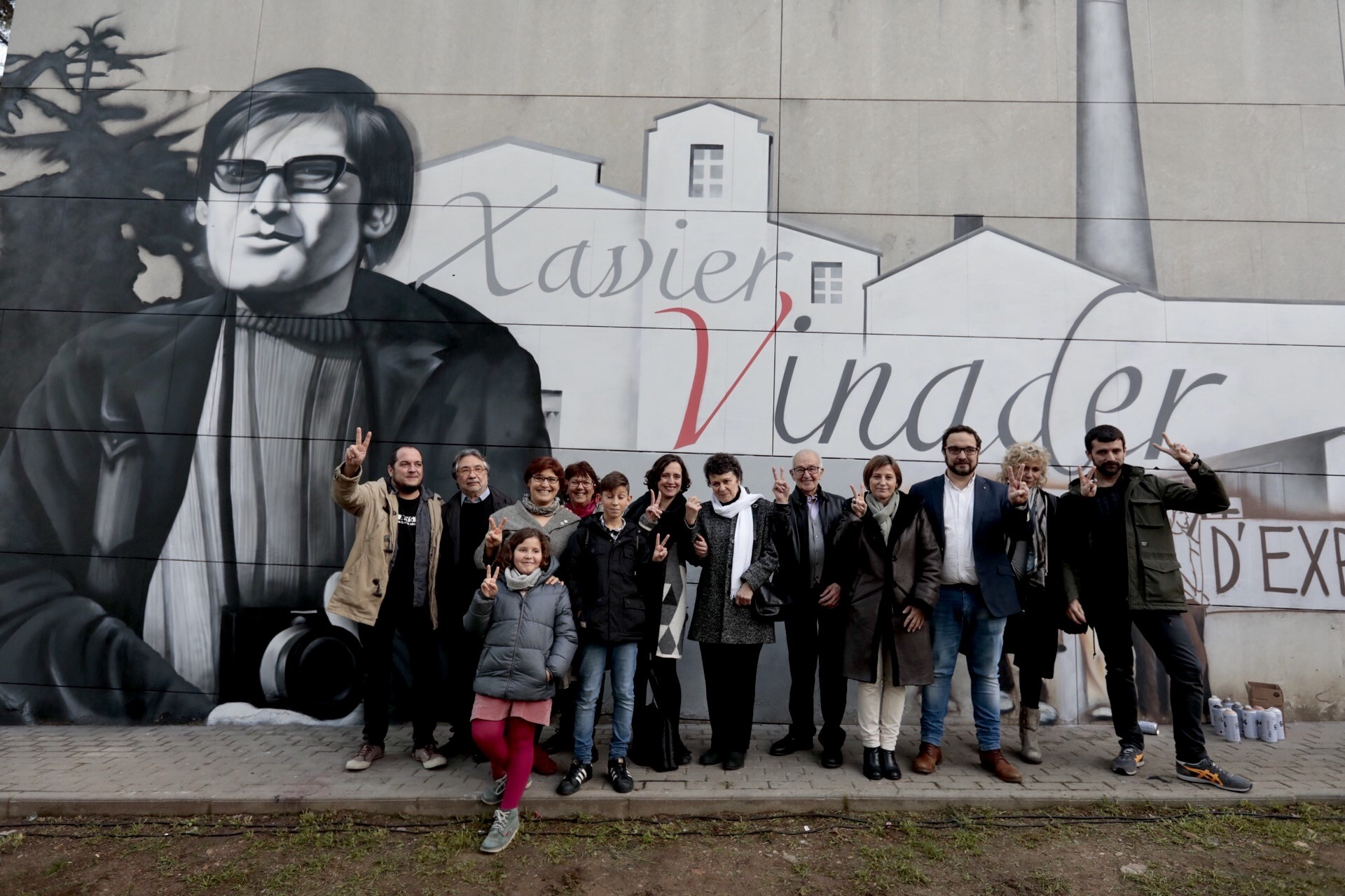 © Foto: Ajuntament de Sabadell / Juanma Peláez